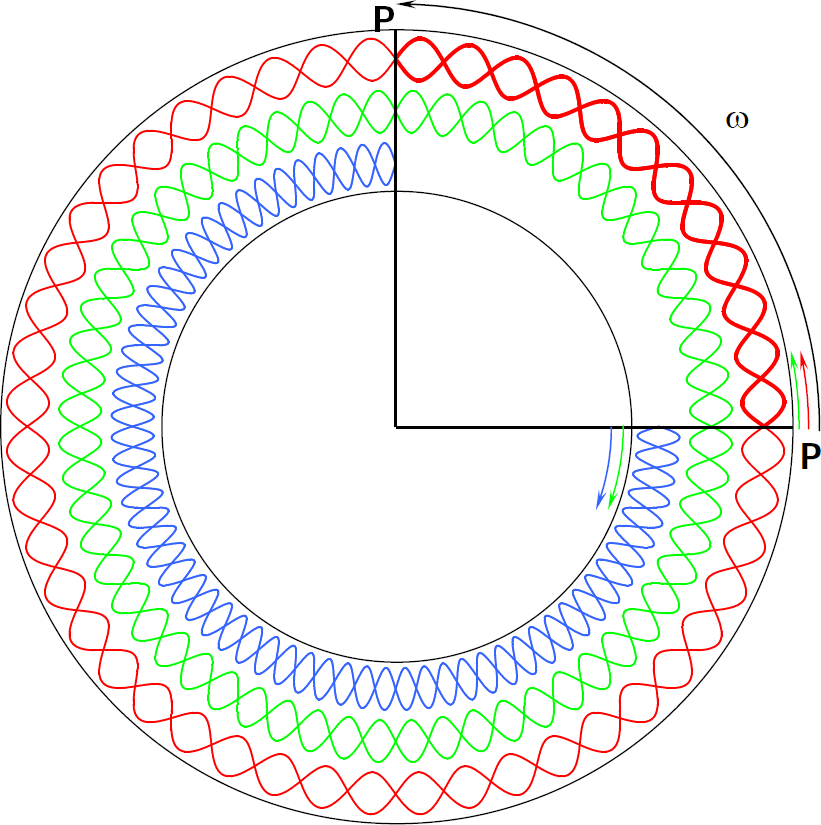 Sagnac frequency shift, active ring